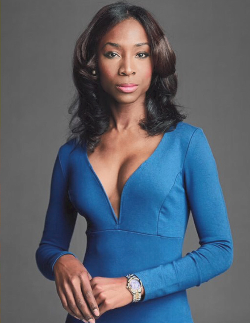 Angelica Ross explains what she means